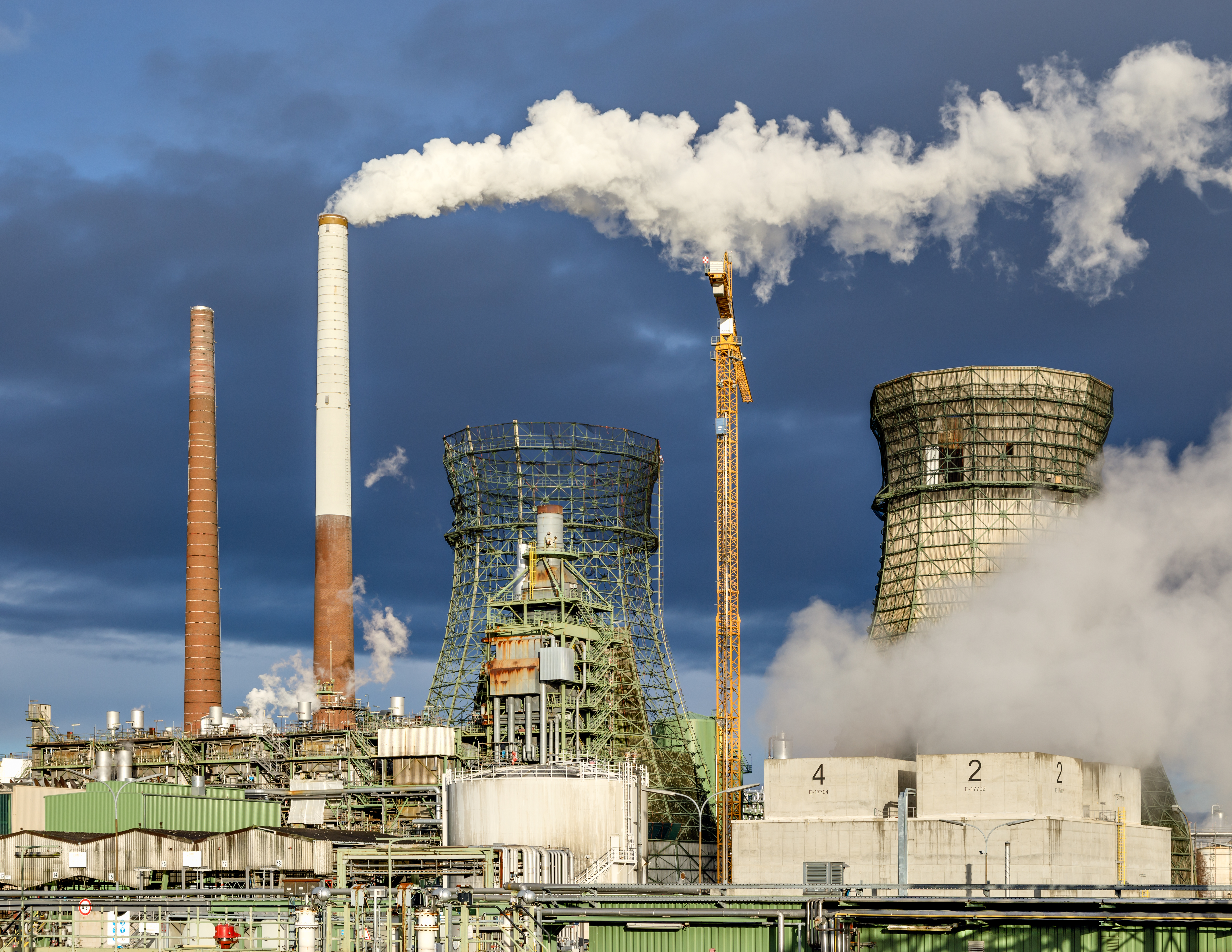 Godorf, Köln, Germany: Old cooling towers of Rhineland Refinery Godorf during the process of dismantling. In the foreground the substitute cooling device. The four low-rise cooling devices perform with the same cooling capacity the high-rise towers offered before.